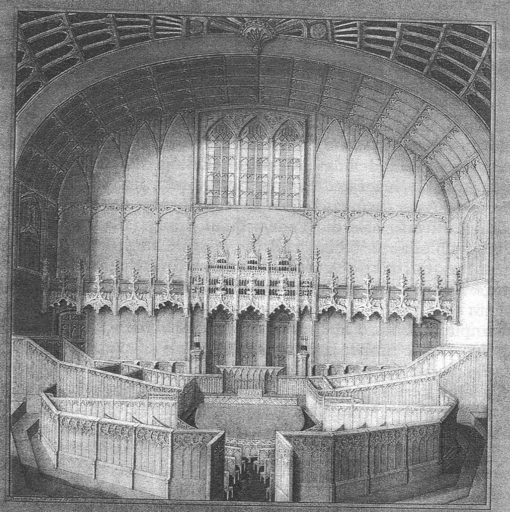 Engraving of the interior of the Shire Hall, Lancaster, dated 1814. Scanned and enhanced by myself